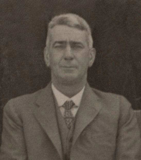 Richard Thilthorpe Slee, General Manager BHP Mine, Broken Hill, taken 1926.